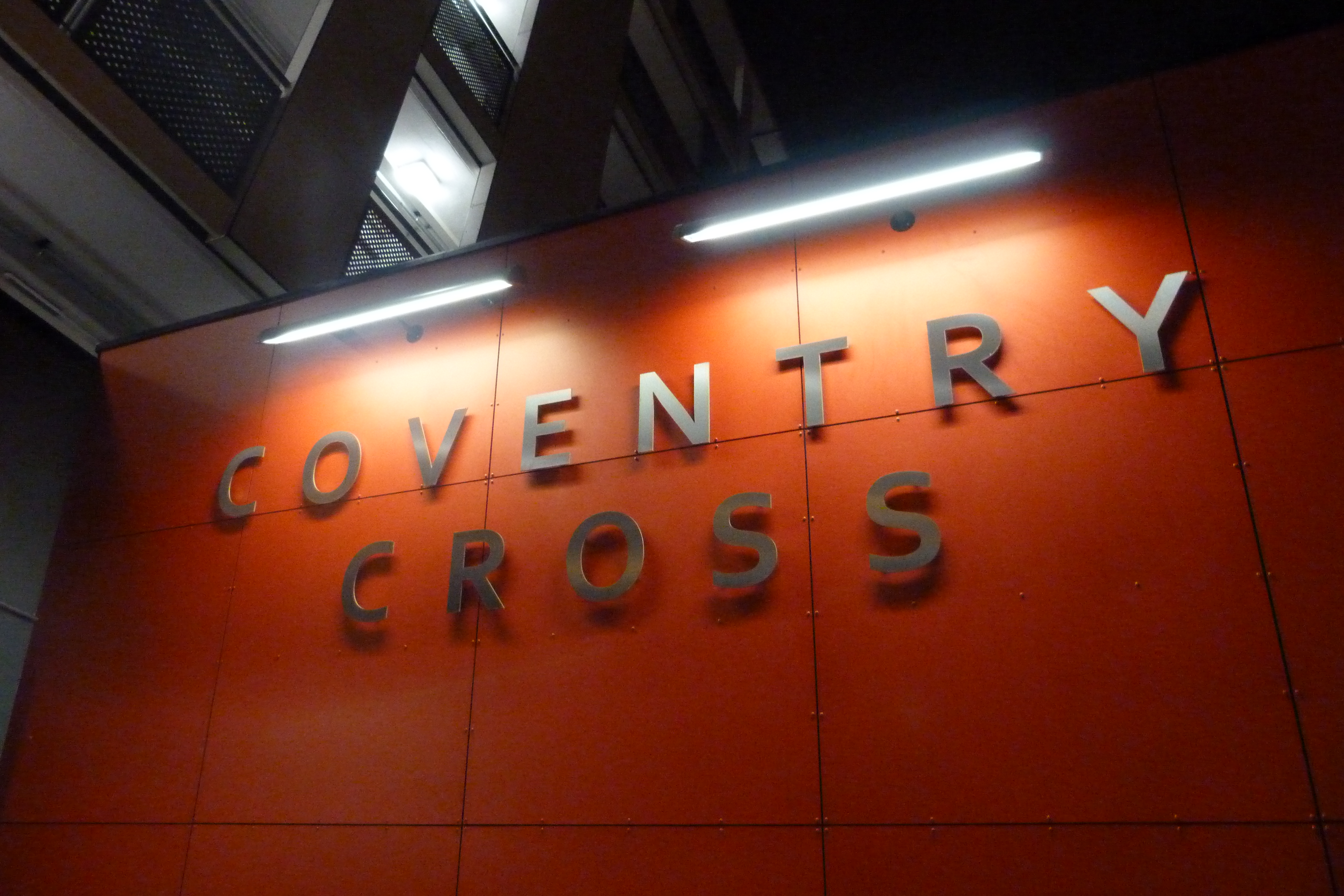 Coventry Cross at night. A housing estate in Bow, East London